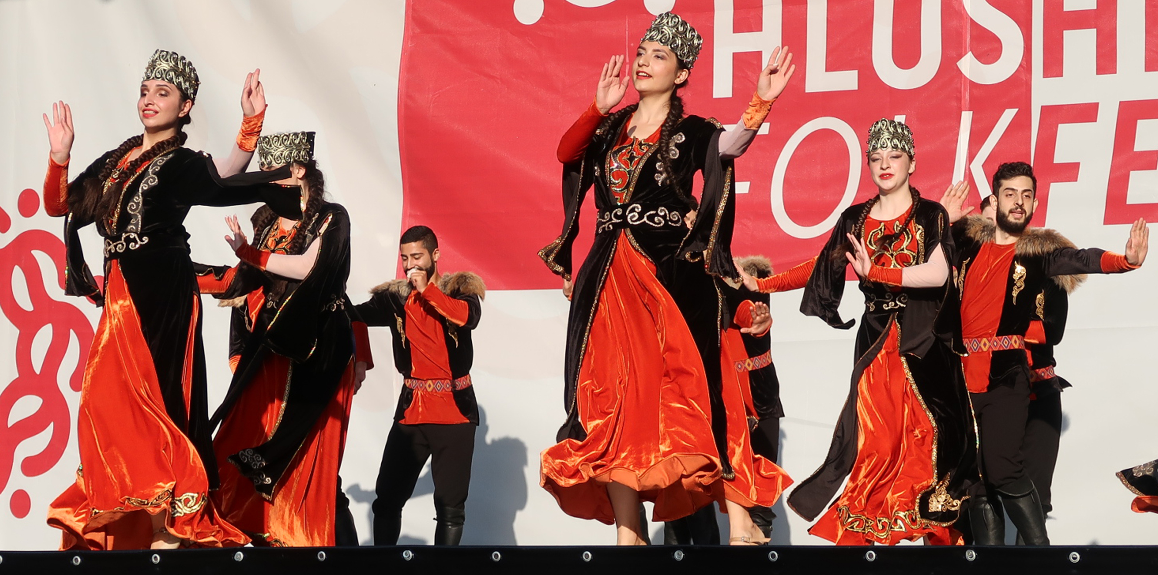 June 13–16, 2019 HlushenkovFolkFest took place in Khmelnytskyi, Ukraine. Photo of participants from Armenia.